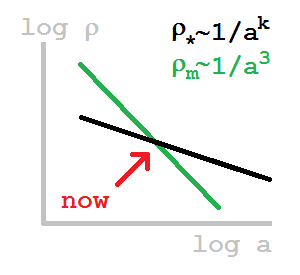 log-log plot of dark energy density and matter density versus scale factor